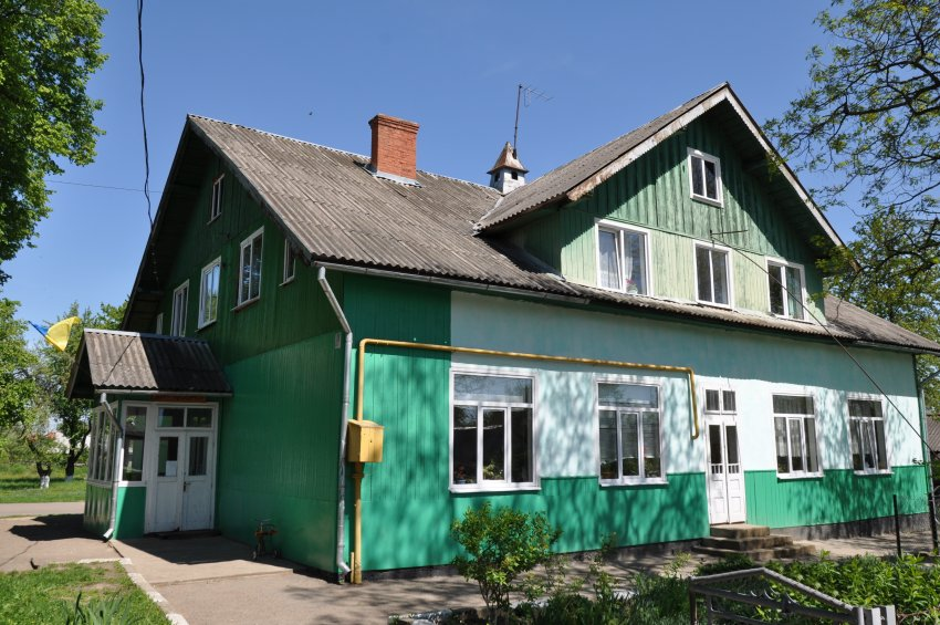 School of general education №8